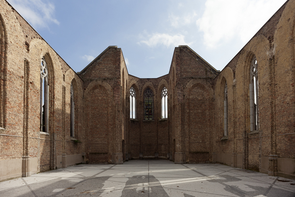 Bossuit. Avelgem. West-Vlaanderen. Belgium. The church. Ruins. Destroyed in world war I, rebuilt 1920. Artistic evocation Repeat. Ellen Harvey. 2014. . Cultural heritage; Europe|Belgium; Europe|Belgium|West-Vlaanderen; Europe|Belgium|West-Vlaanderen|Bossuit. Ellen Harvey. . © Paul M.R. Maeyaert; . Ref: PM_113013_B_Bossuit